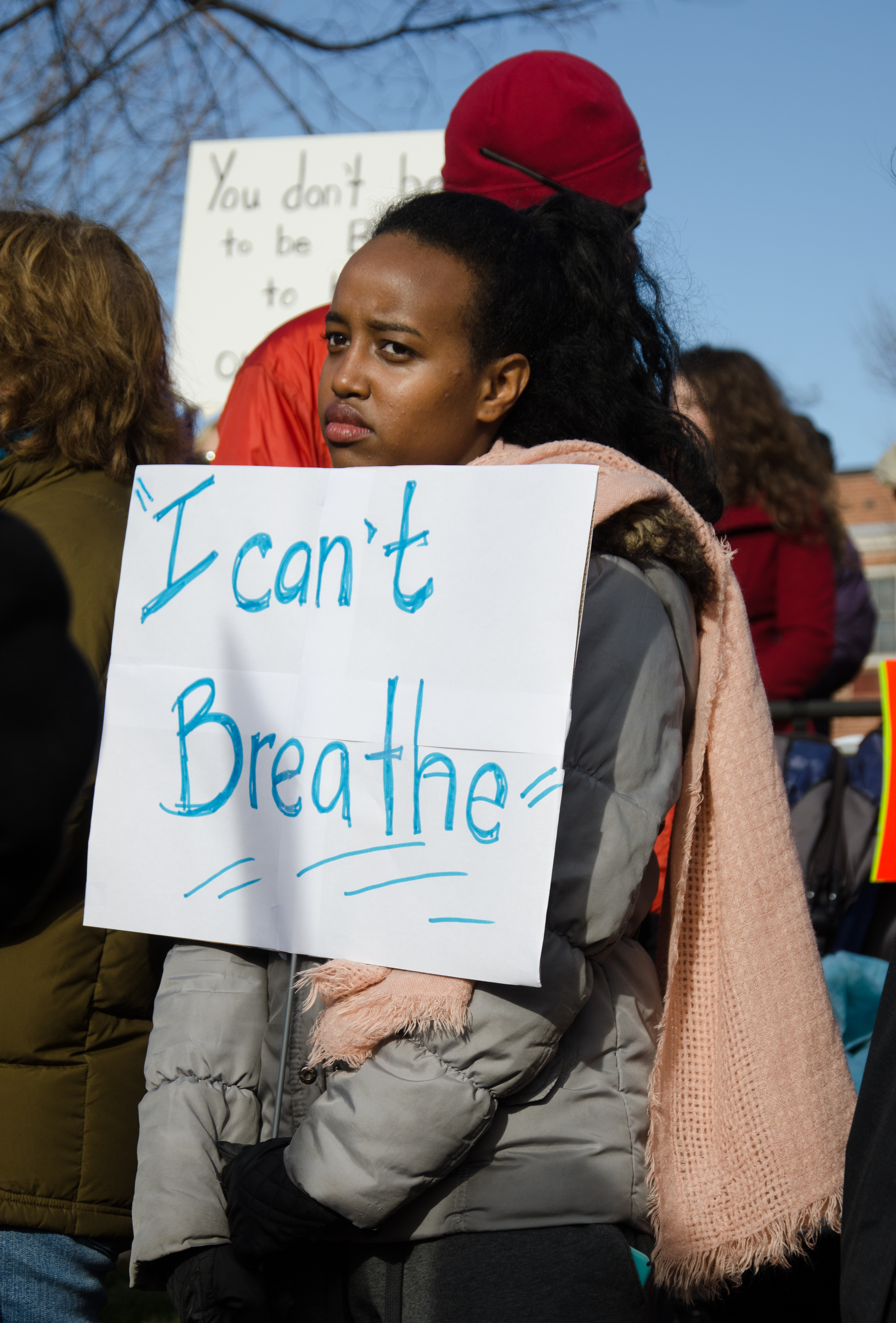 ICantBreathe